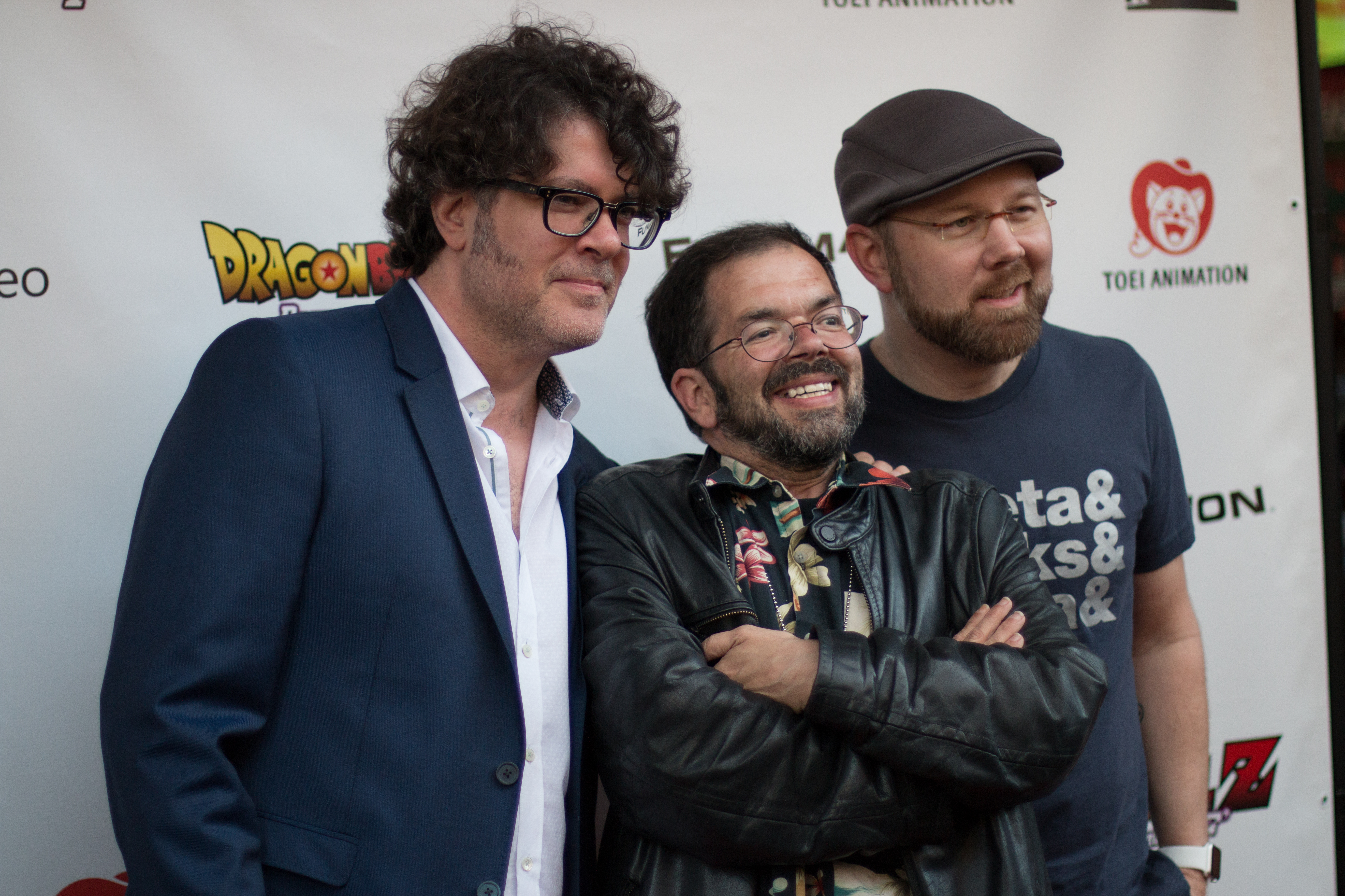 Dragonball Z voice actors San Diego Comic Con 2015.